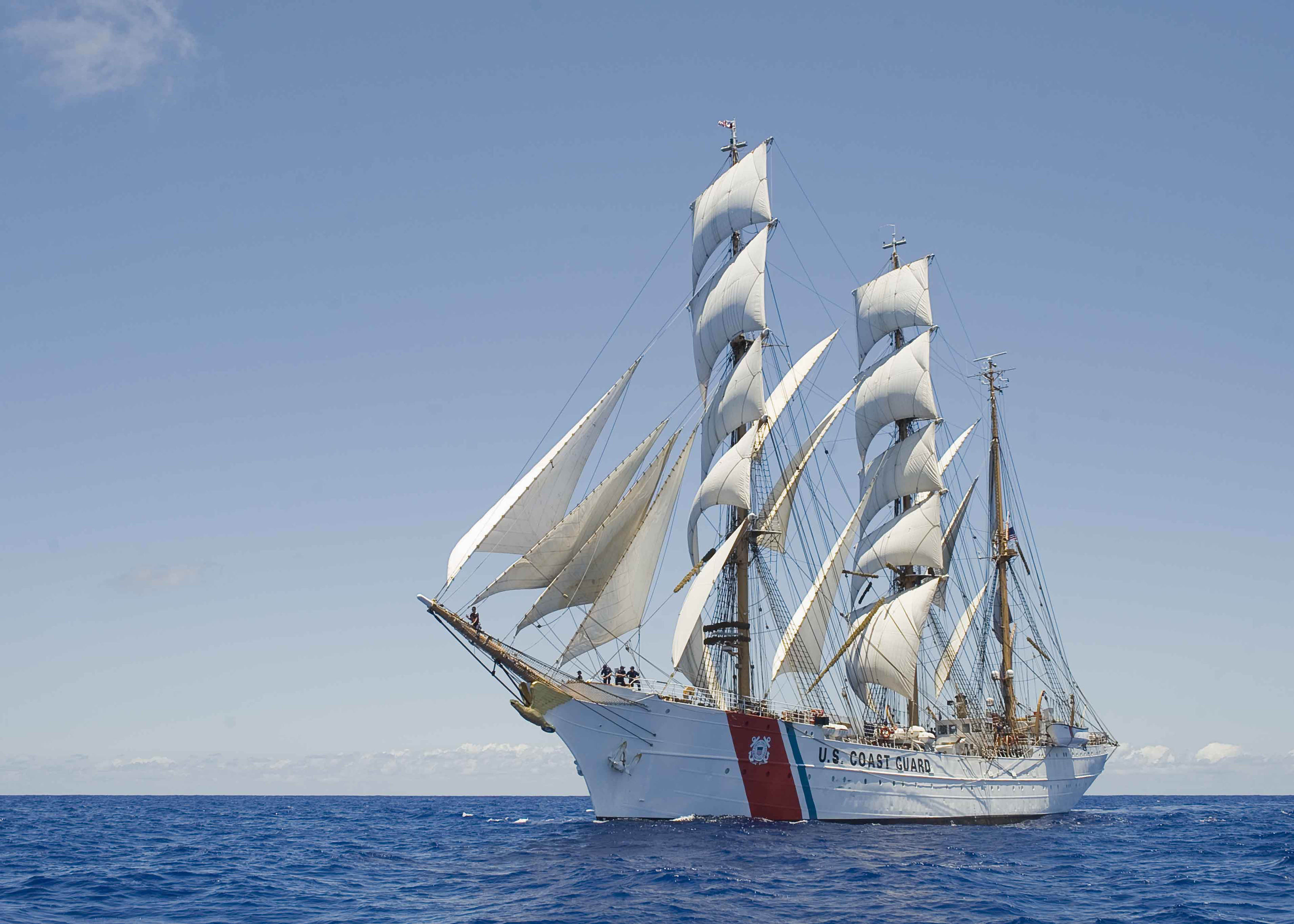 The Coast Guard Cutter Eagle sails toward the island of St. Maarten during its first two weeks underway for the cadet training deployment May 20, 2013. Eagle departed New London, Conn., May 11 for a 11-week cadet training deployment stopping at nine port calls in five countries, with four different groups of cadets training onboard. (U.S. Coast Guard photo by Petty Officer 2rd Class Erik Swanson)